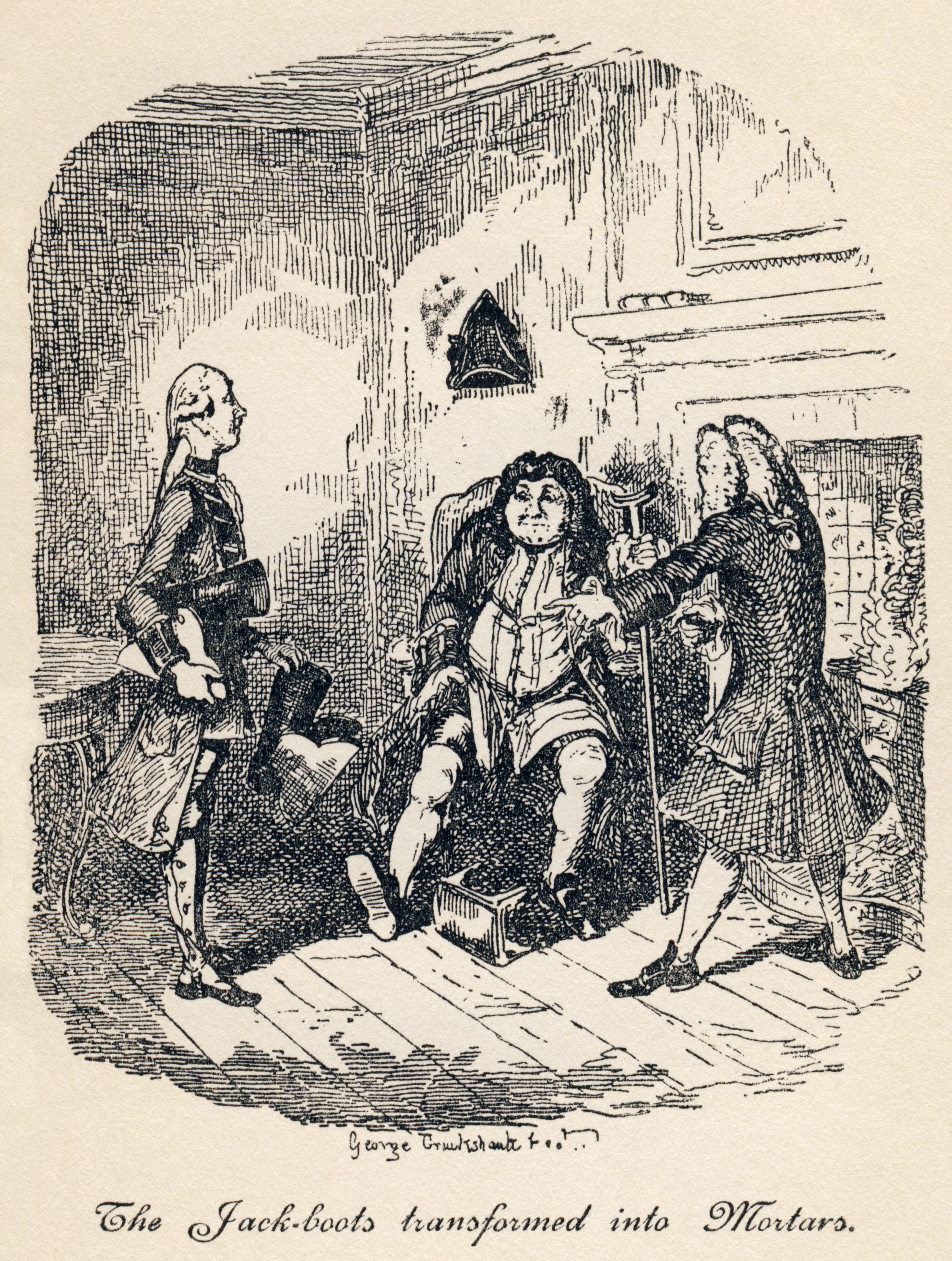 From George Cruikshank's illustrations to Laurence Sterne's Tristram Shandy. Plate III: The Jack-boots transformed into Mortars From left to right, Trim, Uncle Toby, and Tristram's father. Trim has turned a pair of old jackboots into mortars (more exactly, "mortarboards" while doing repairs around the house. Unfortunately, though Trim was assured they were no longer in use by Obadiah, they were Tristram's great-great-grandfather's.